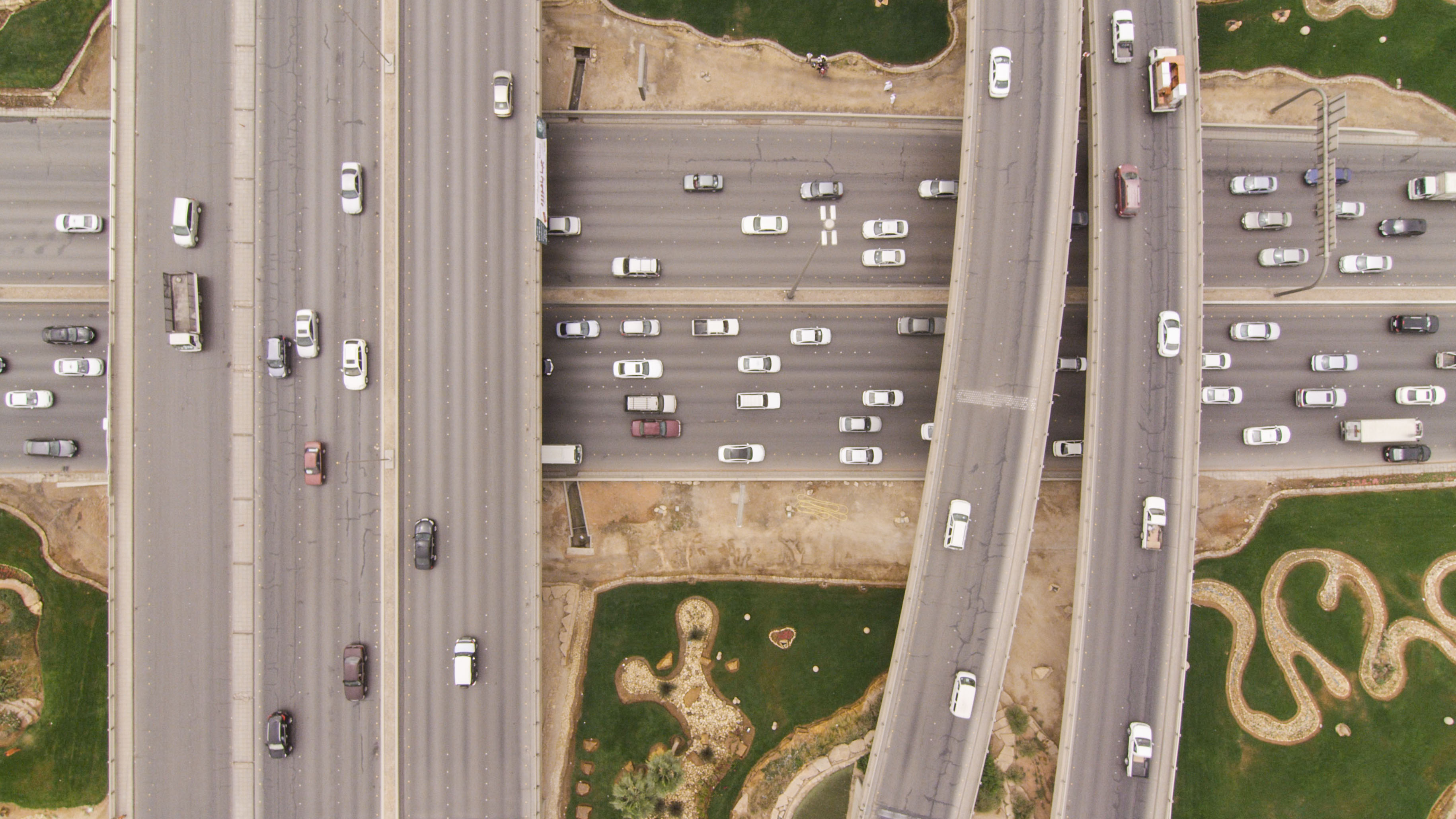 Aerial (helicam) view of a highway, Riyadh, Saud Arabia.